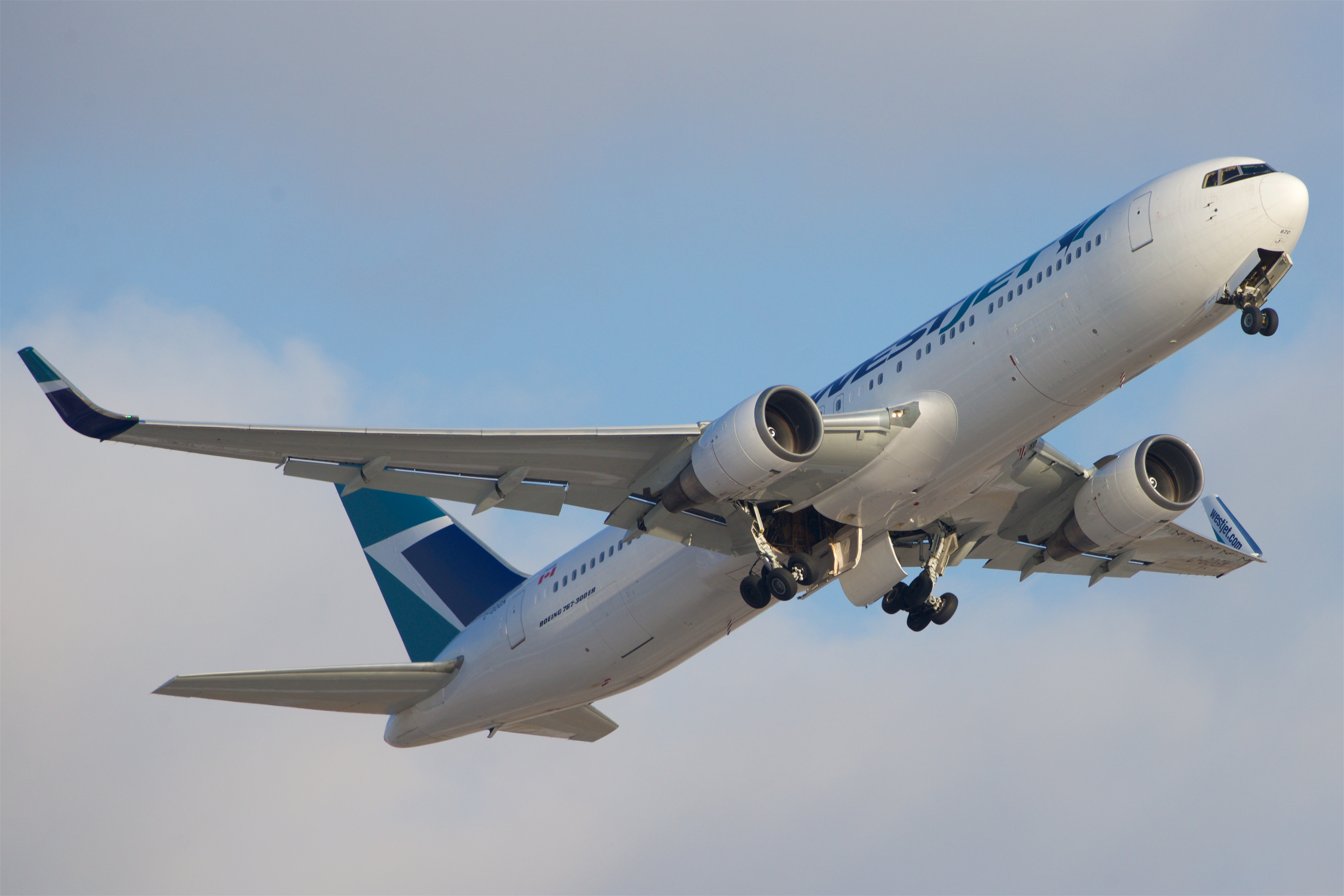 Rocketing out of YYZ.